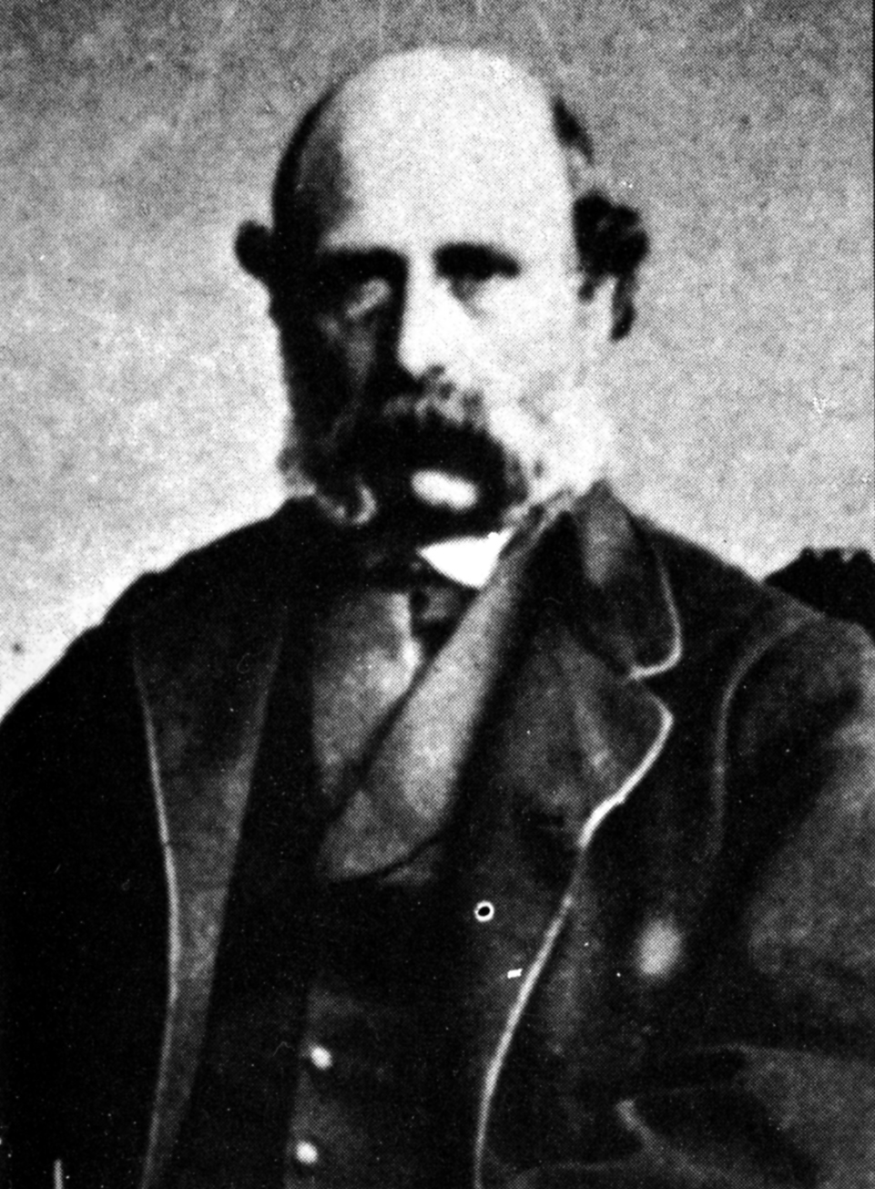 William King, british geologist who named Homo neanderthalensis